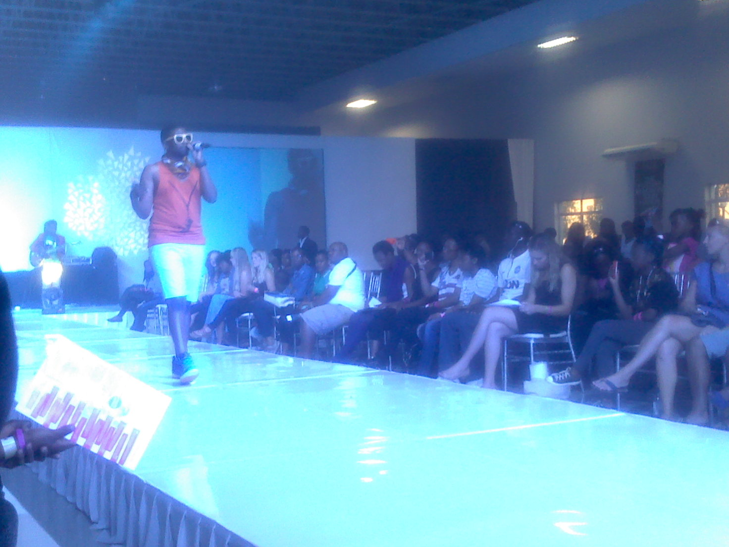 Zeus Performing Touch the sky at Sky Girls BW fashion show